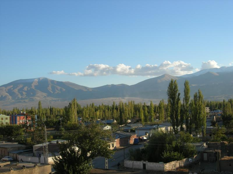 Agri Mountain from Igdir